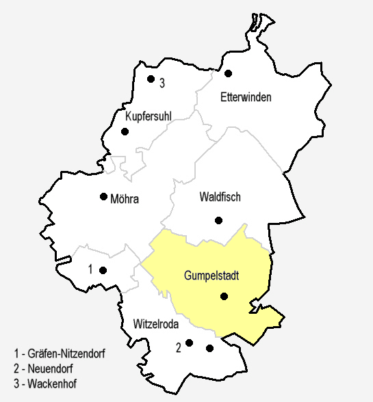 District-Maps of Moorgrund - Gumpelstadt.